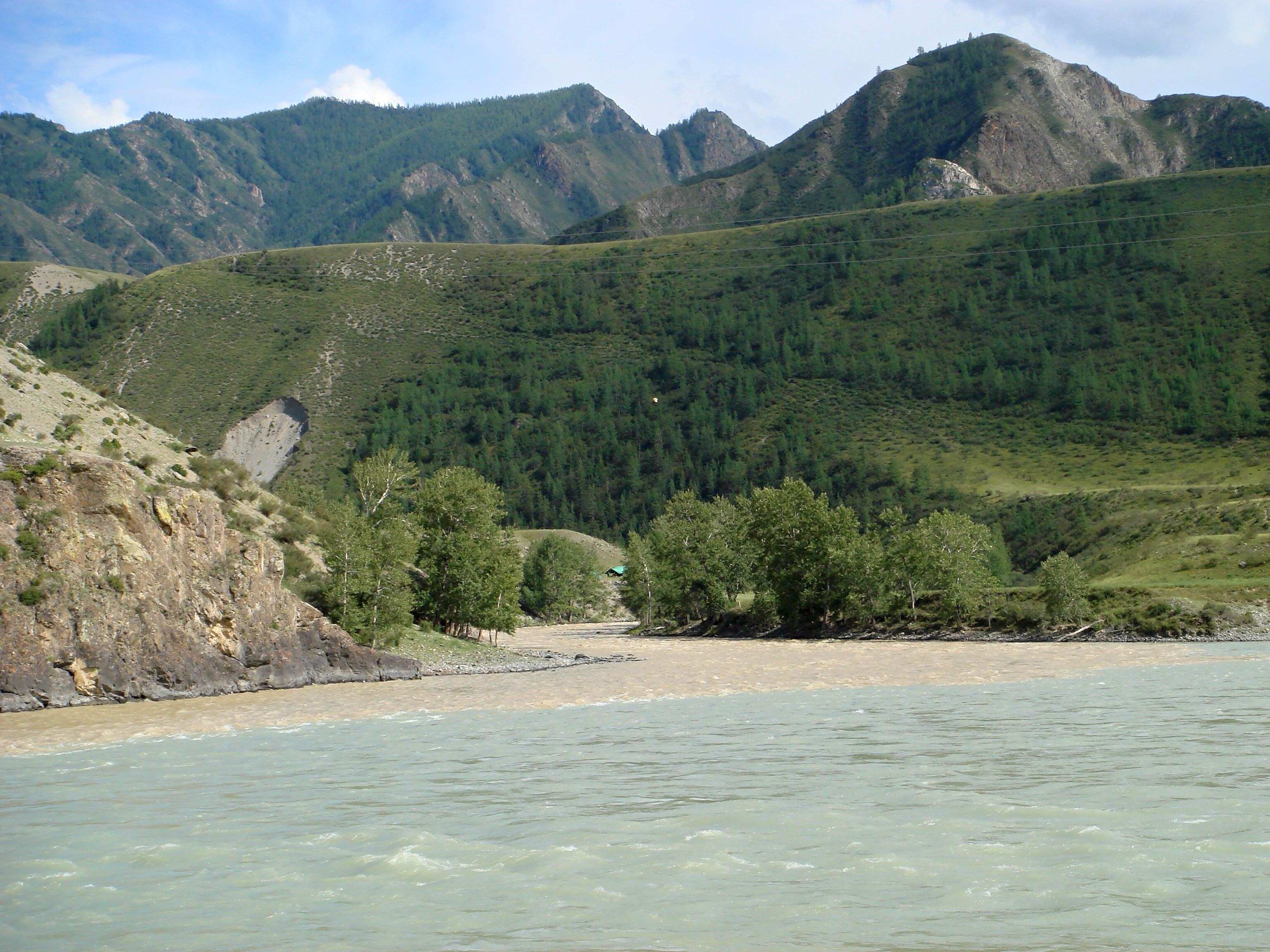 Confluence of Katun and Chuya (Altay Republic, Russia).